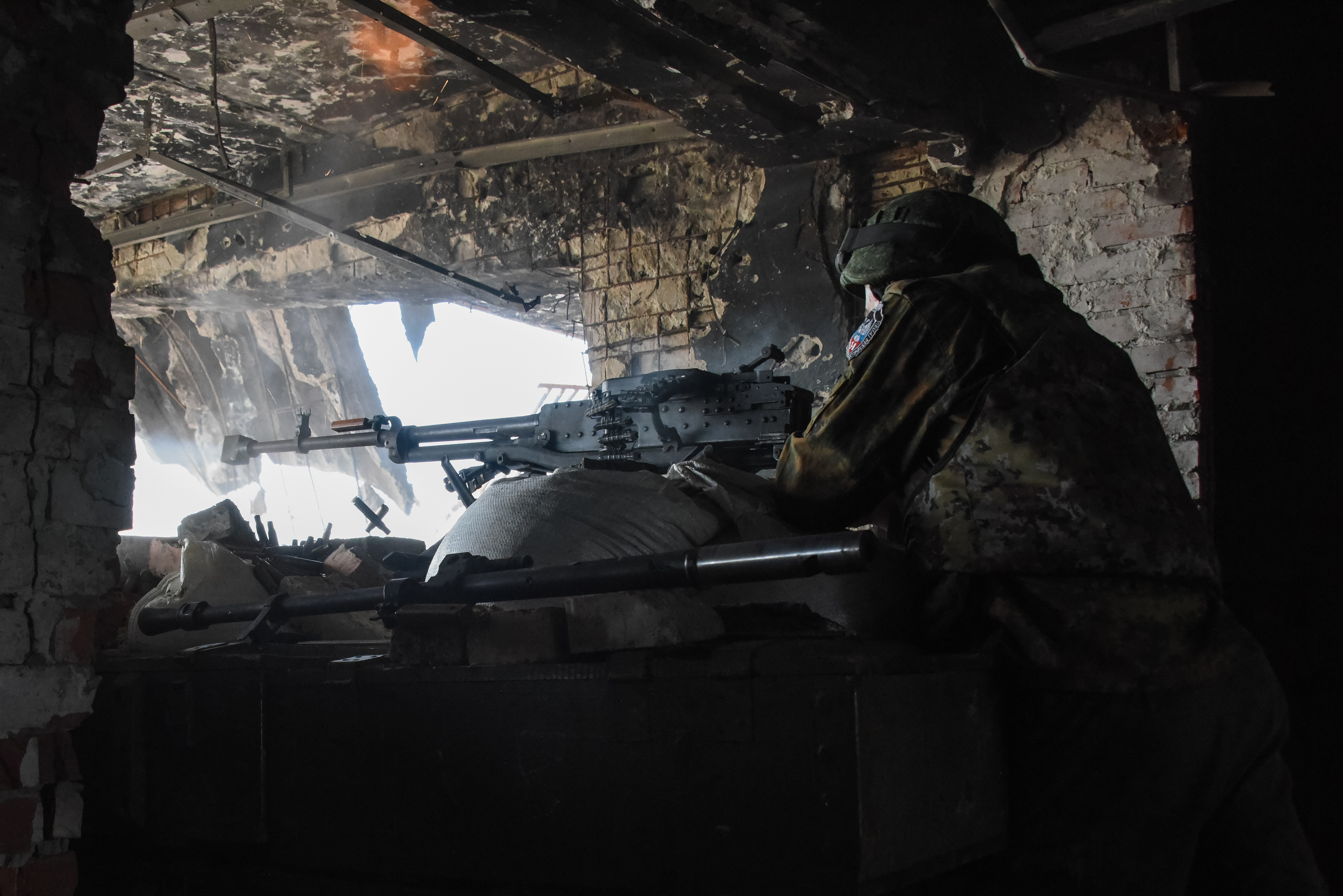 A Russia-backed armed rebel observing fighting positions though firing port at his position in ruins of International Donetsk Airport, June 12, 2015